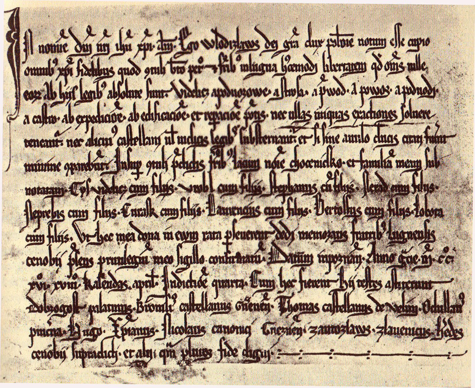 Document od prince Ladislaus Odonic of Poland to the Cistercians of Sulejow